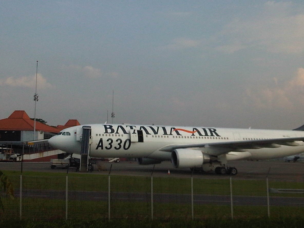 Batavia Air A330